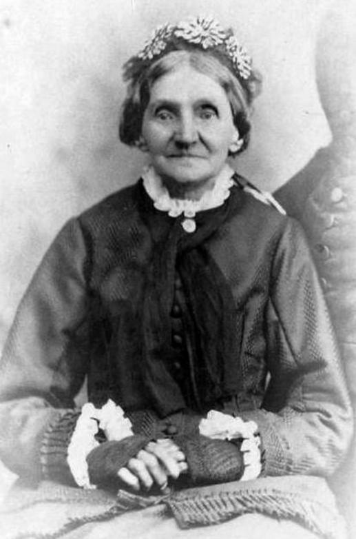 Photo of Elizabeth Ann Whitney, an early Latter-day Saint leader, and the wife of Newel K. Whitney, another early Latter Day Saint leader.